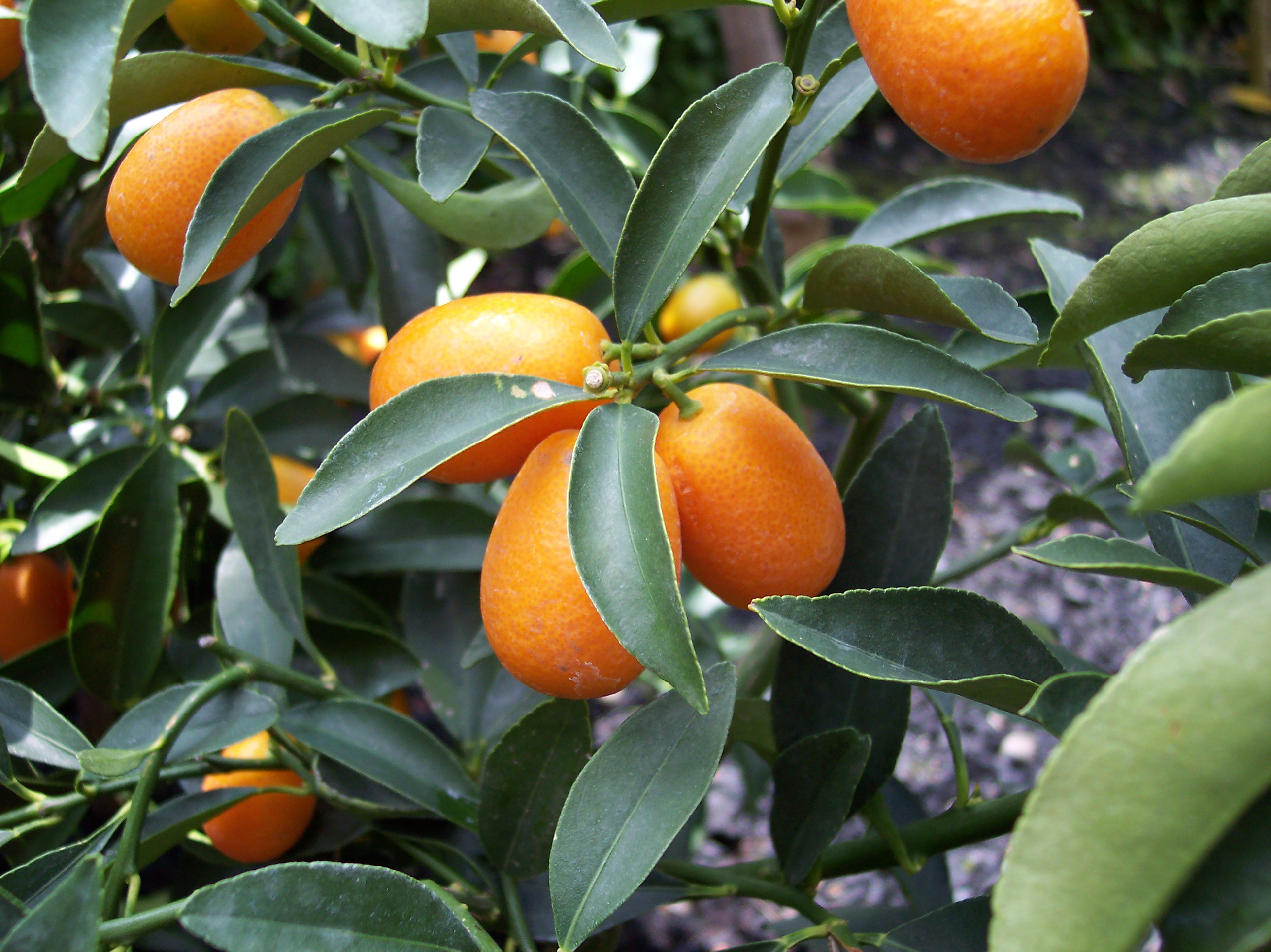 Fruit of Fortunella margarita|, syn: Citrus japonica 'Margarita, the Oval or Nagami Kumquat. At the Royal Botanical Garden, Madrid.